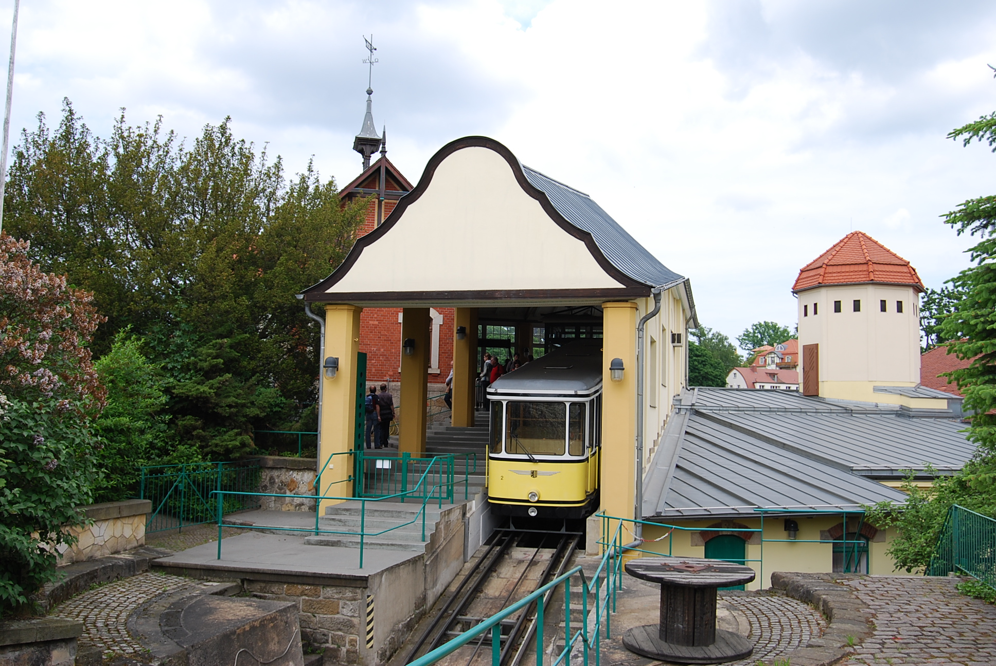 The upper station of the Standseilbahn Dresden (Dresden Funicular Railway)